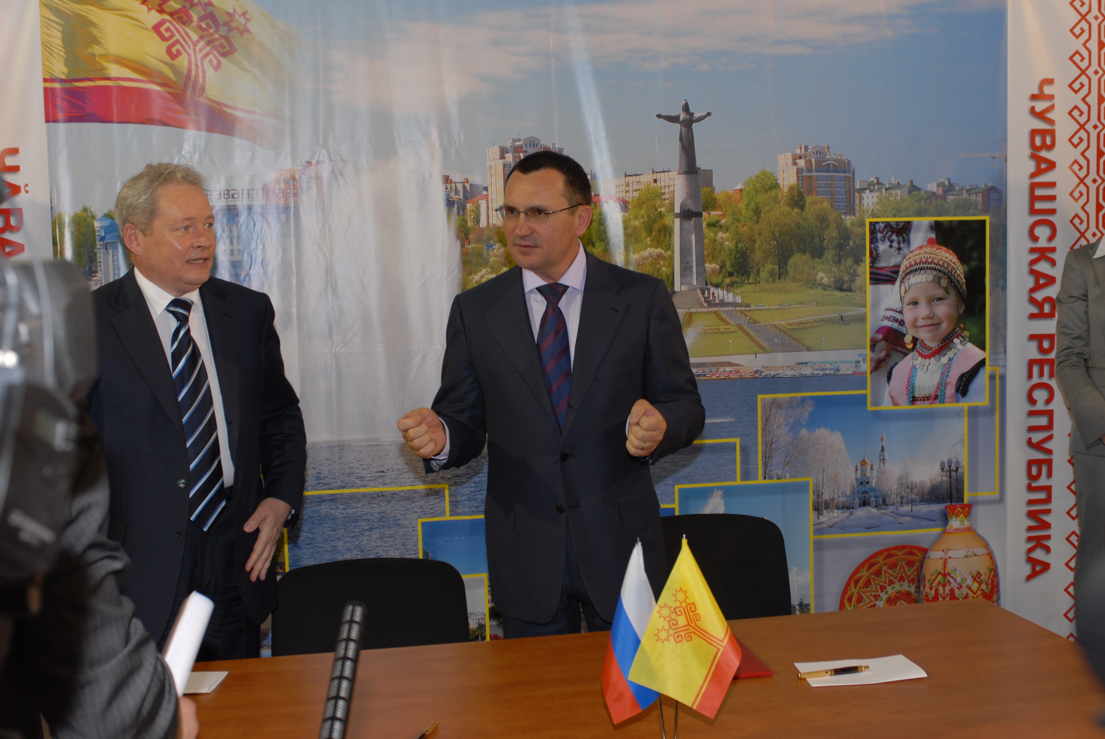 Nikolay Vasilyevich Fyodorov, "Kontur", Cheboksary, 23 june 2010